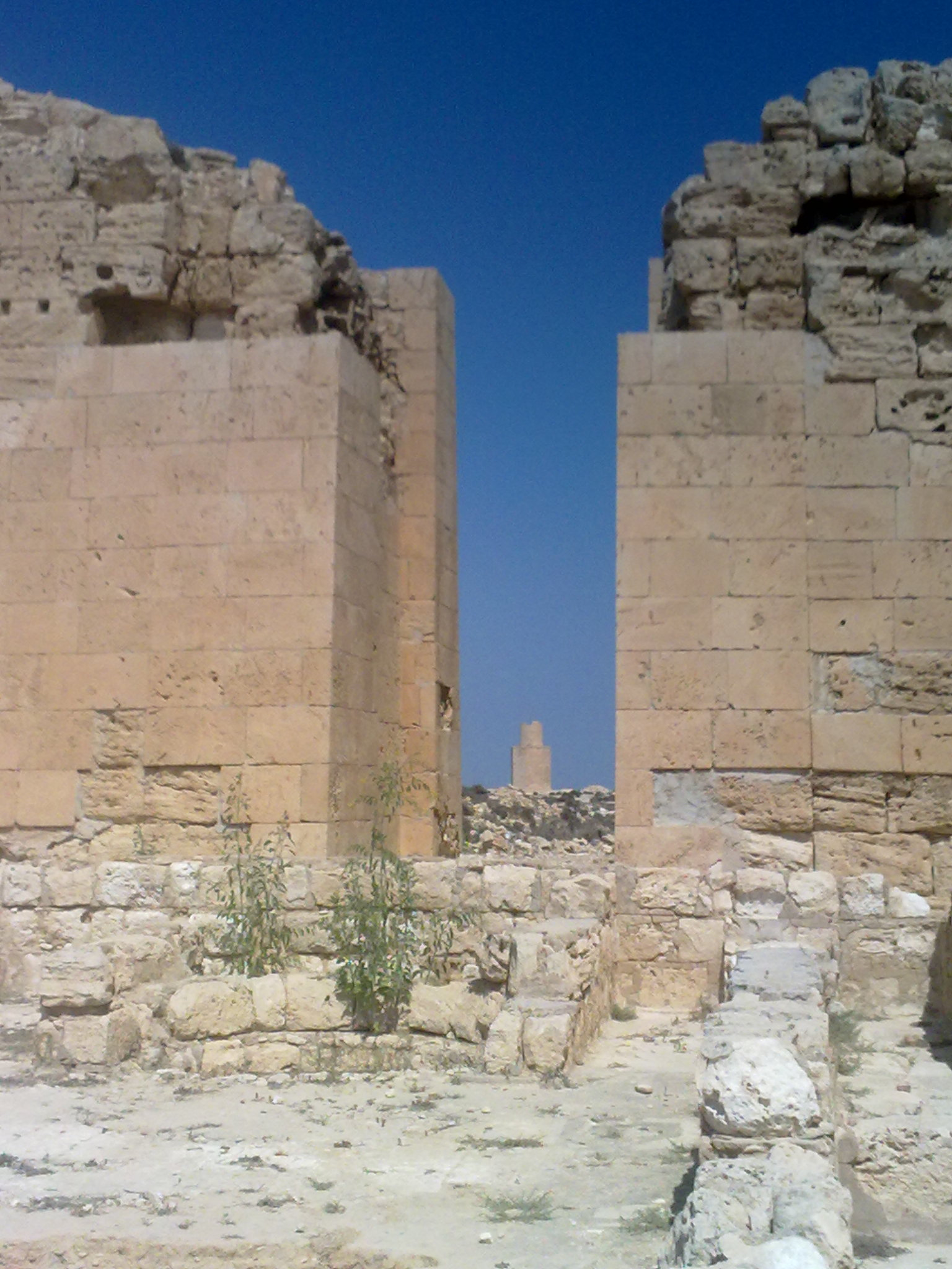 Mgna temple